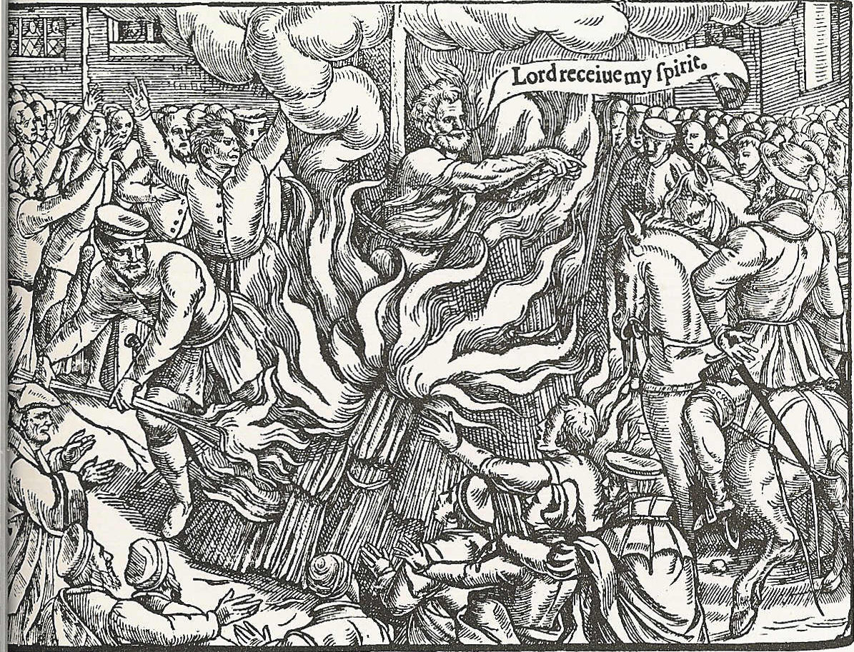 John Rogers, the first victim (4 February 1555) of the Marian persecutions in England. The speech banner says "Lord receive my spirit". John Foxe's Book of Martyrs.